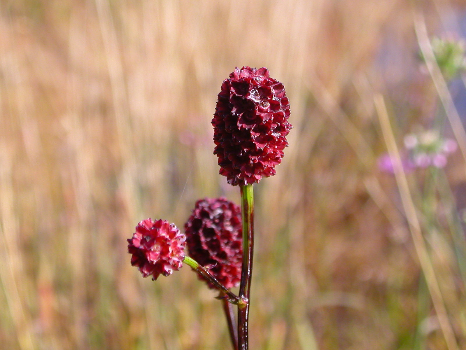 Sanguisorba officinalis at Naruto-Togane carnivorous plant colony(成東・東金食虫植物群落のワレモコウ)